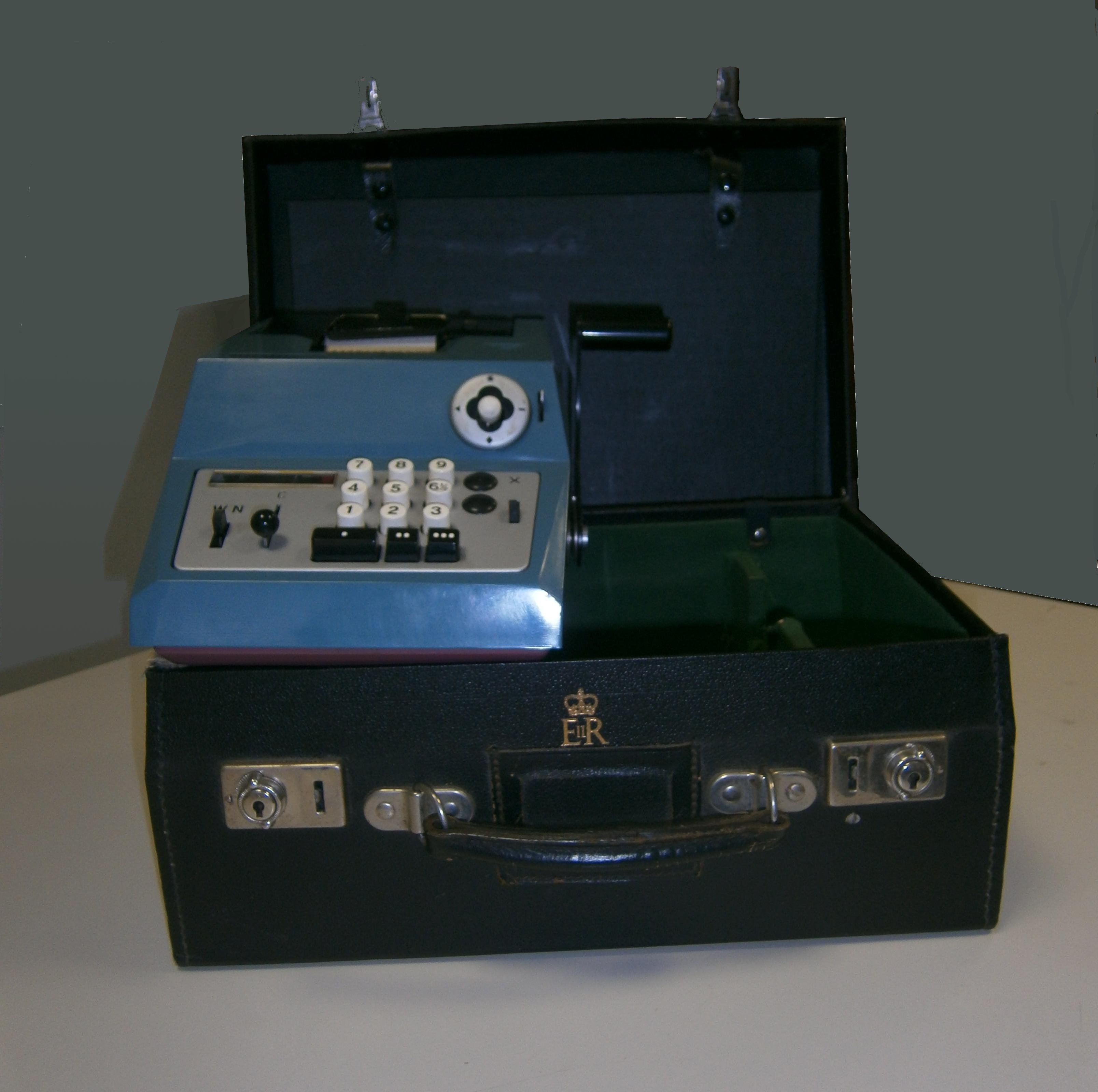 Olivetti Summa Prima-20 with sterling keyboard. The case is labelled with Royal monogram.